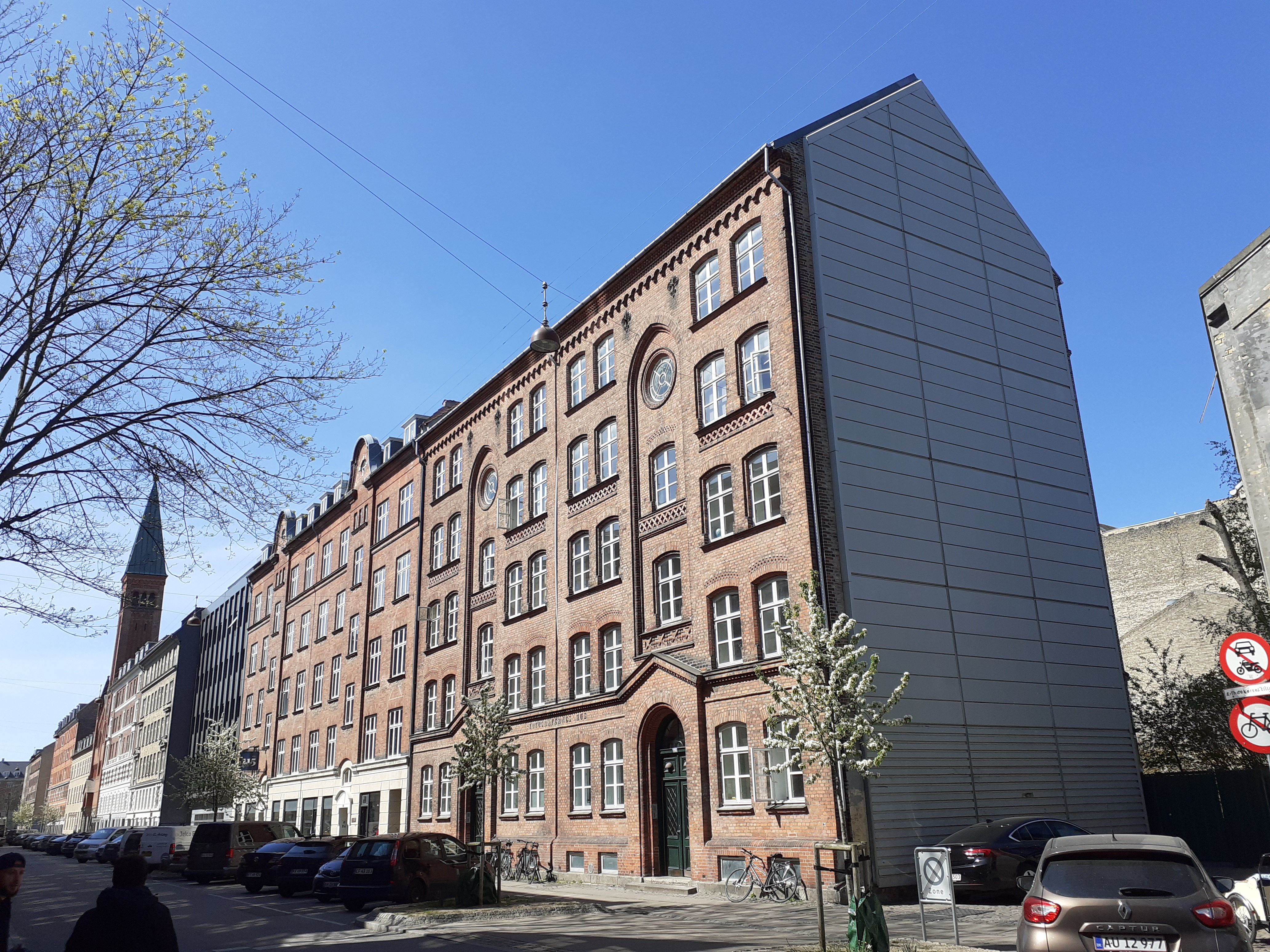 Apartment buildings at Ryesgade in Østerbro in Copenhagen.